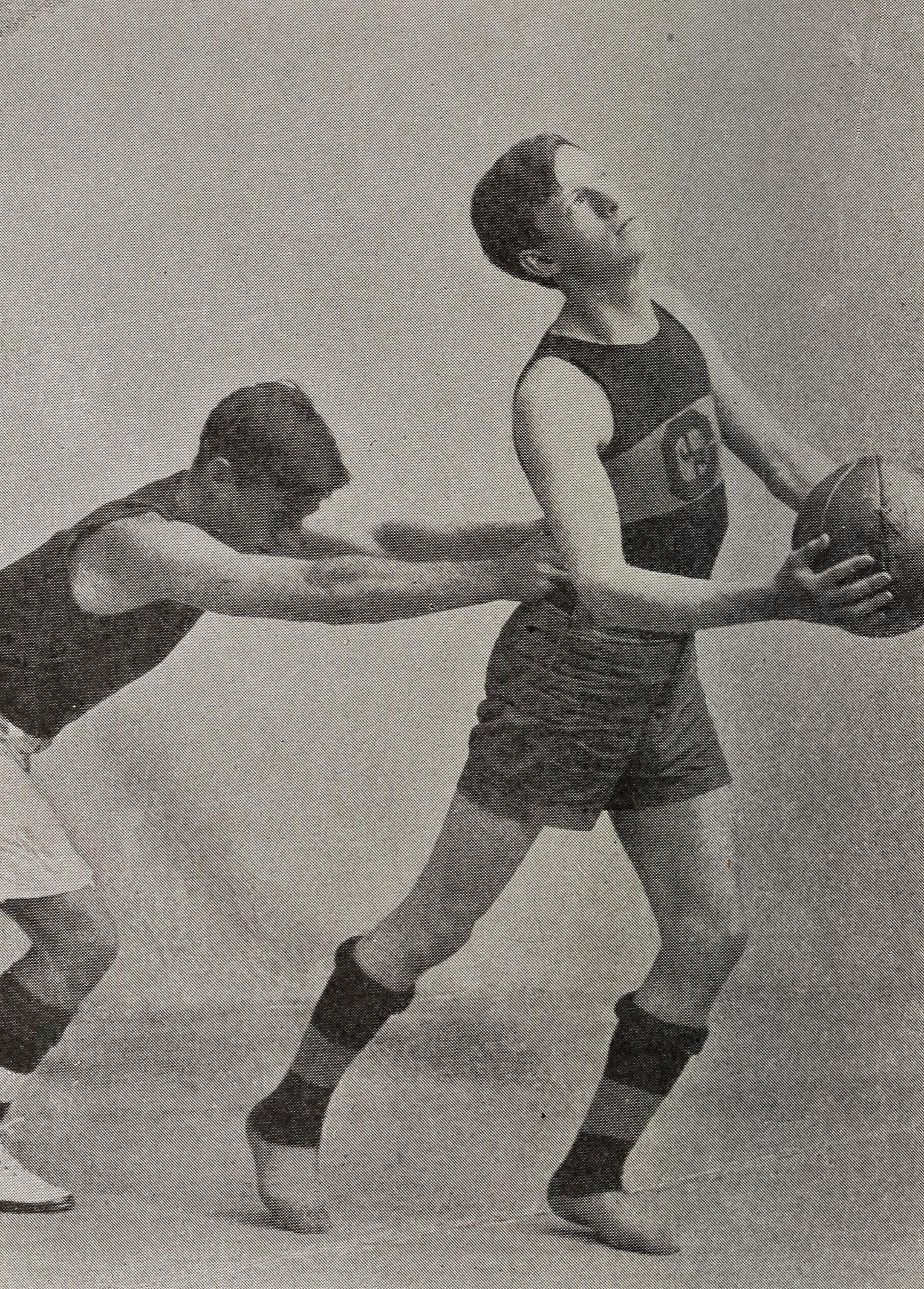 Title: Official basket ball guide and Protective association rules for 1908 '09 Year: 1908 (1900s) Authors: Smith, Thomas Henry, 1870?- (from old catalog) Protective basket-ball association of the eastern states. (from old catalog) Subjects: Basketball Publisher: New York city, R. K. Fox Text Appearing Before Image: PLATE NO. 8. PROTECTIVE ASSOCIATION BASKET BALL. Ill Plate No. 8. Strongly resembles the wrestling trick knownas the flying mare. The ball has been held tothe ground, and the player on top, in attemptingto reach it, has climbed on his opponents back.The under man does not help things any bygrasping the arm of the man on top and attempt-ing to heave him over his head, and unless twowrongs make a right, the whole affair resemblesa double foul. Had the under player not tried totoss the upper man, the official should stop theupper mans laying over his opponent in shortorder by imposing a foul for holding. Text Appearing After Image: PLATE NO. 9. PROTECTIVE ASSOCIATION BASKET BALL. 113 Plate No. 9. Illustrates a player catching the ball on ornear the boundary line, while his opponent, whohas no hope of obtaining possession of the ball,deliberately fouls him by a violent push. Theoffender, without doubt, is the man who does thepushing, and the man with the ball cannot beconsidered as carrying it out of bounds.